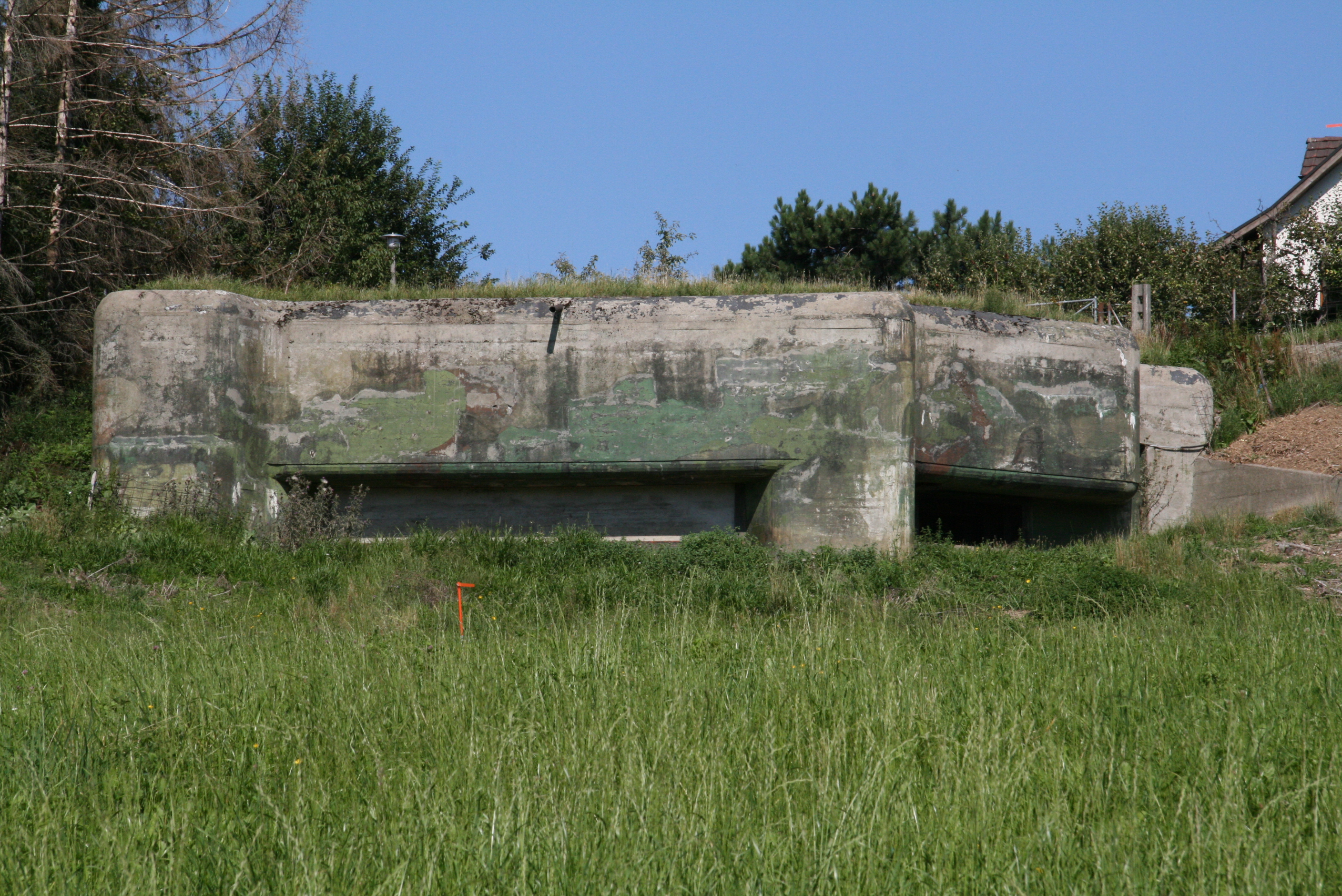 Bunker in Bottighofen, district of Kreuzlingen, canton of Thurgau, Switzerland